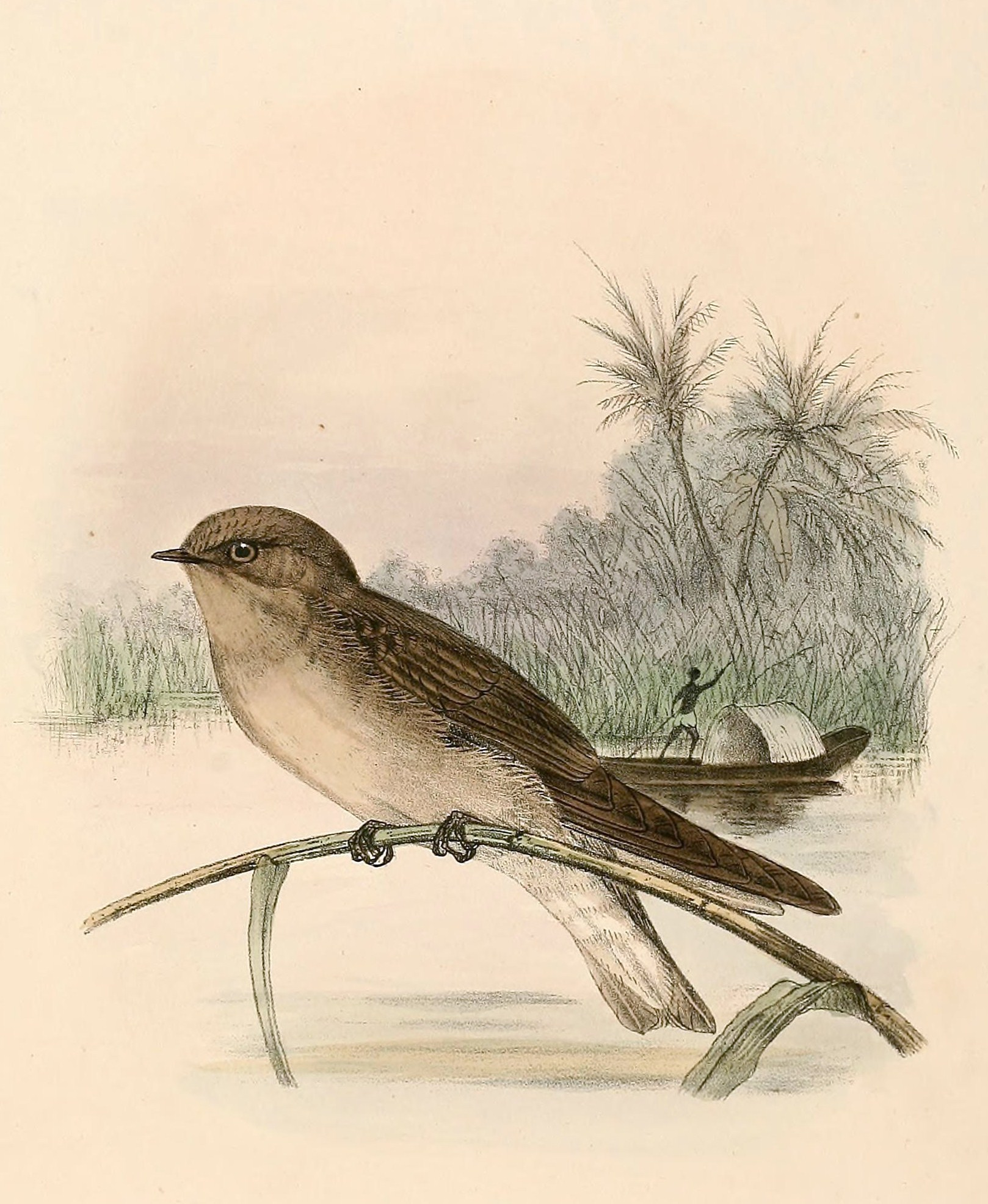 « Cotile minor » = Riparia paludicola minor (Subspecies of Brown-throated Martin)